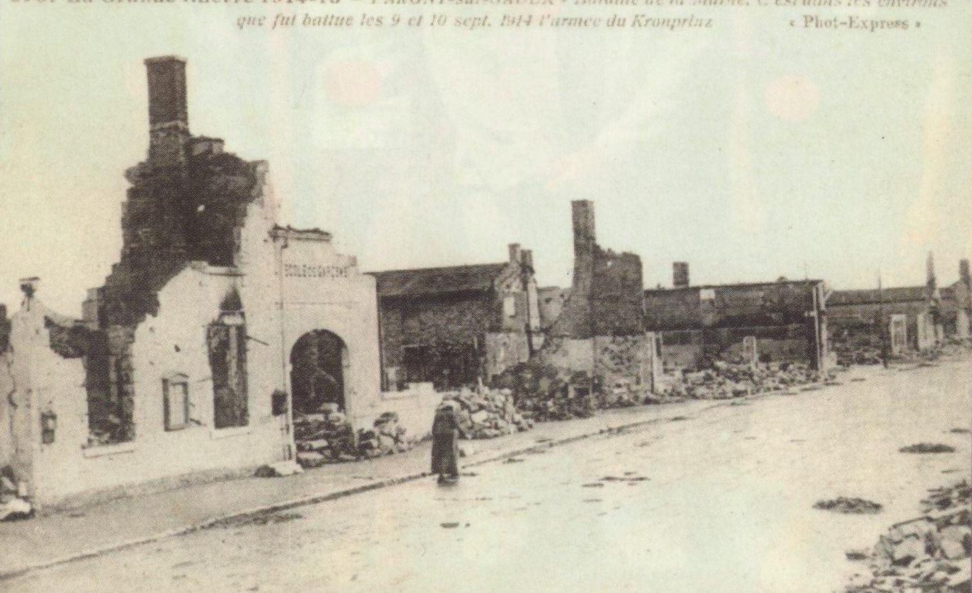 Pargny-sur-Saulx after violent fights in September, 1914.